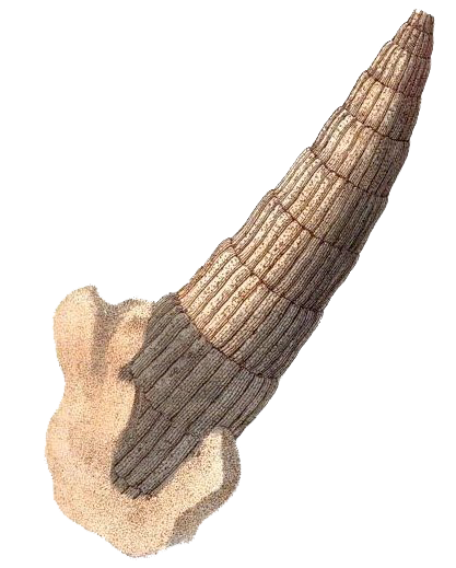 (a PNG version of this image) Illustration of a Calamites species fossil from the "Petrificata derbiensia: or, Figures and descriptions of petrifactions ... By William Martin - Fossil - PHYTOLITHUS sulcatus Graminis trunci cylindrici simplicis articulis longitudinaliter sulcatis S t.